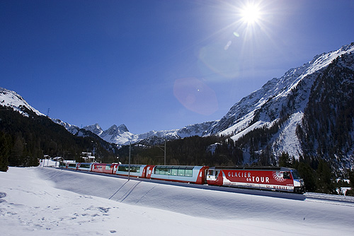 Glacier express in the Albula Valley